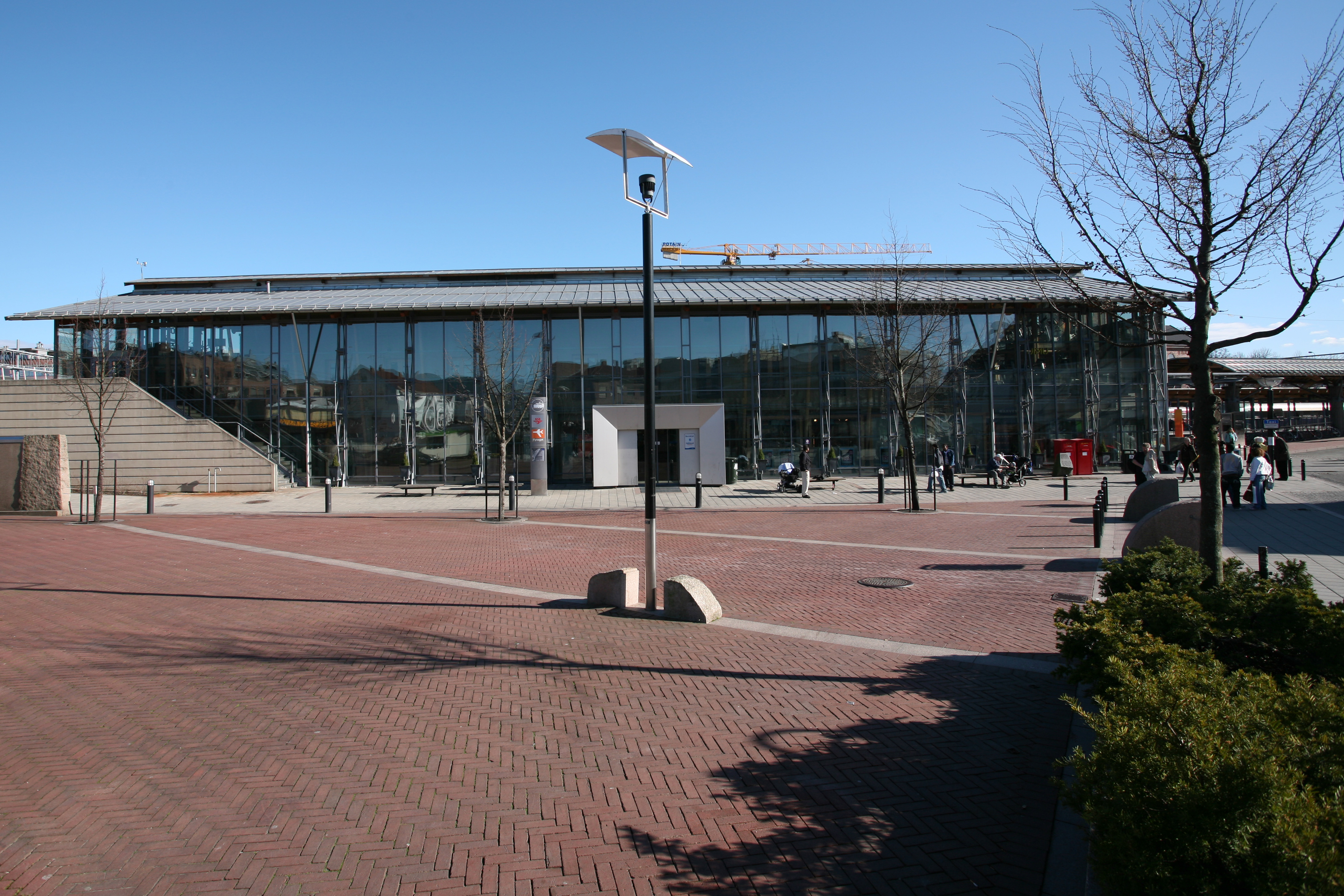 Picture of Asker railway station (Norway)